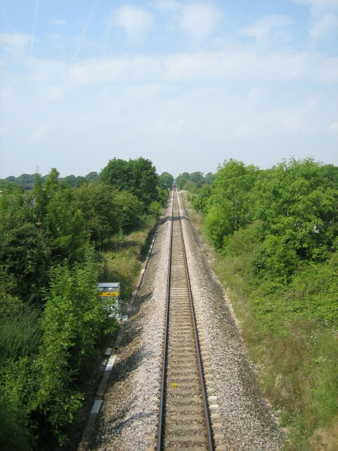 Site of Minety & Ashton Keynes Station. The site of the former Minety & Ashton Keynes railway station on the Swindon to Gloucester line. Looking west.